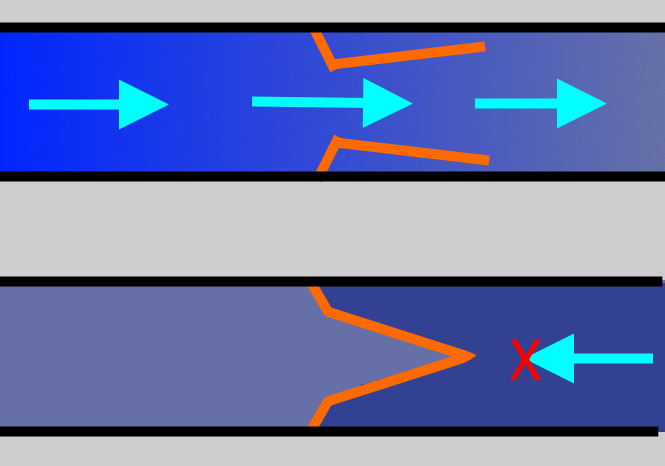 A cross-section diagram of a Duckbill valve. The top part depicts open flow of fluid, while the bottom part depicts stoppage of backflow.